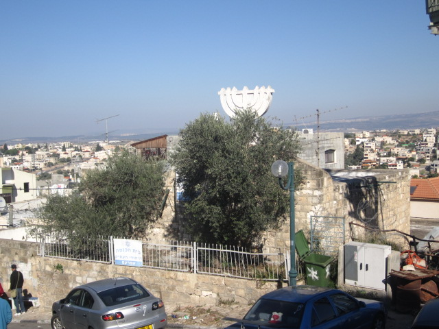 Ancient synagogue in Shefa-'Amr